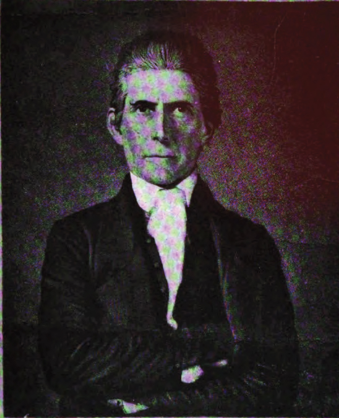 Kentucky Congressman Micah Taul